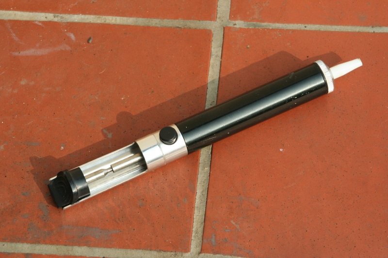 Manual solder sucker